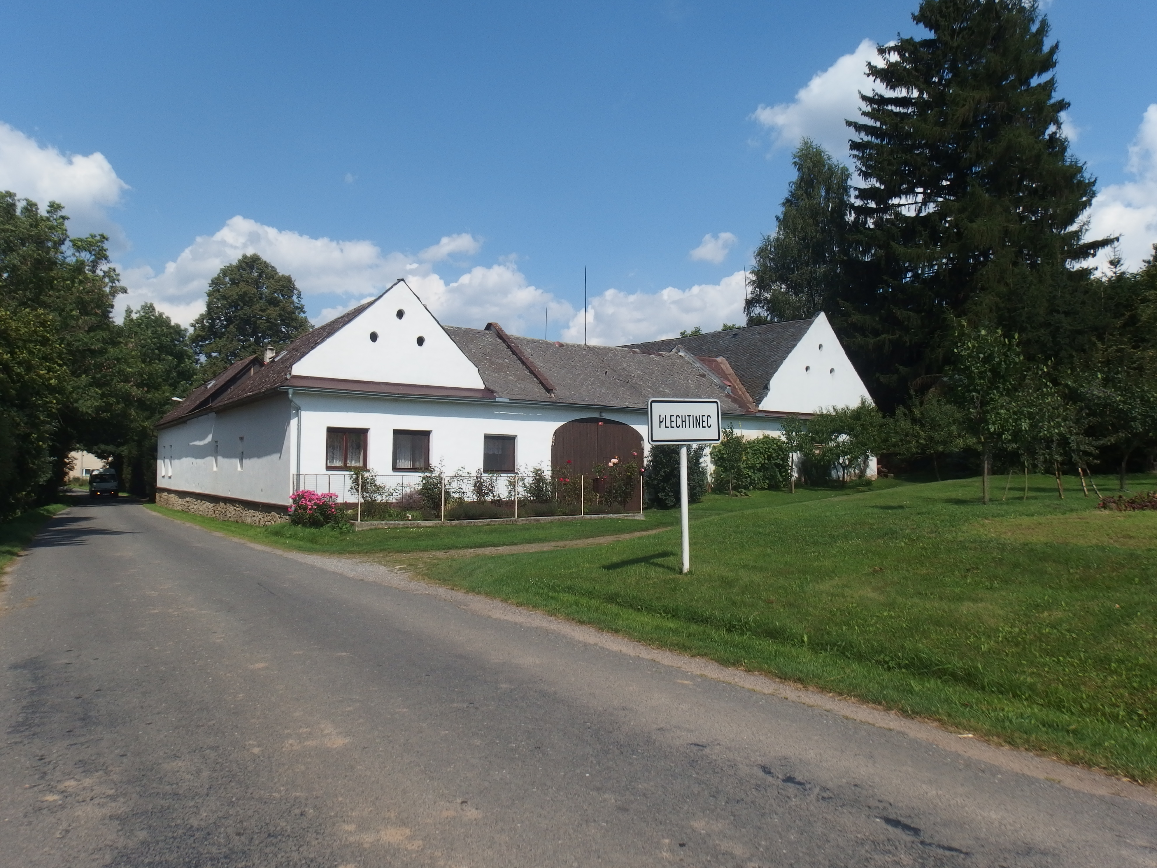 Městečko Trnávka, Svitavy District, Czech Republic, part Plechtinec.